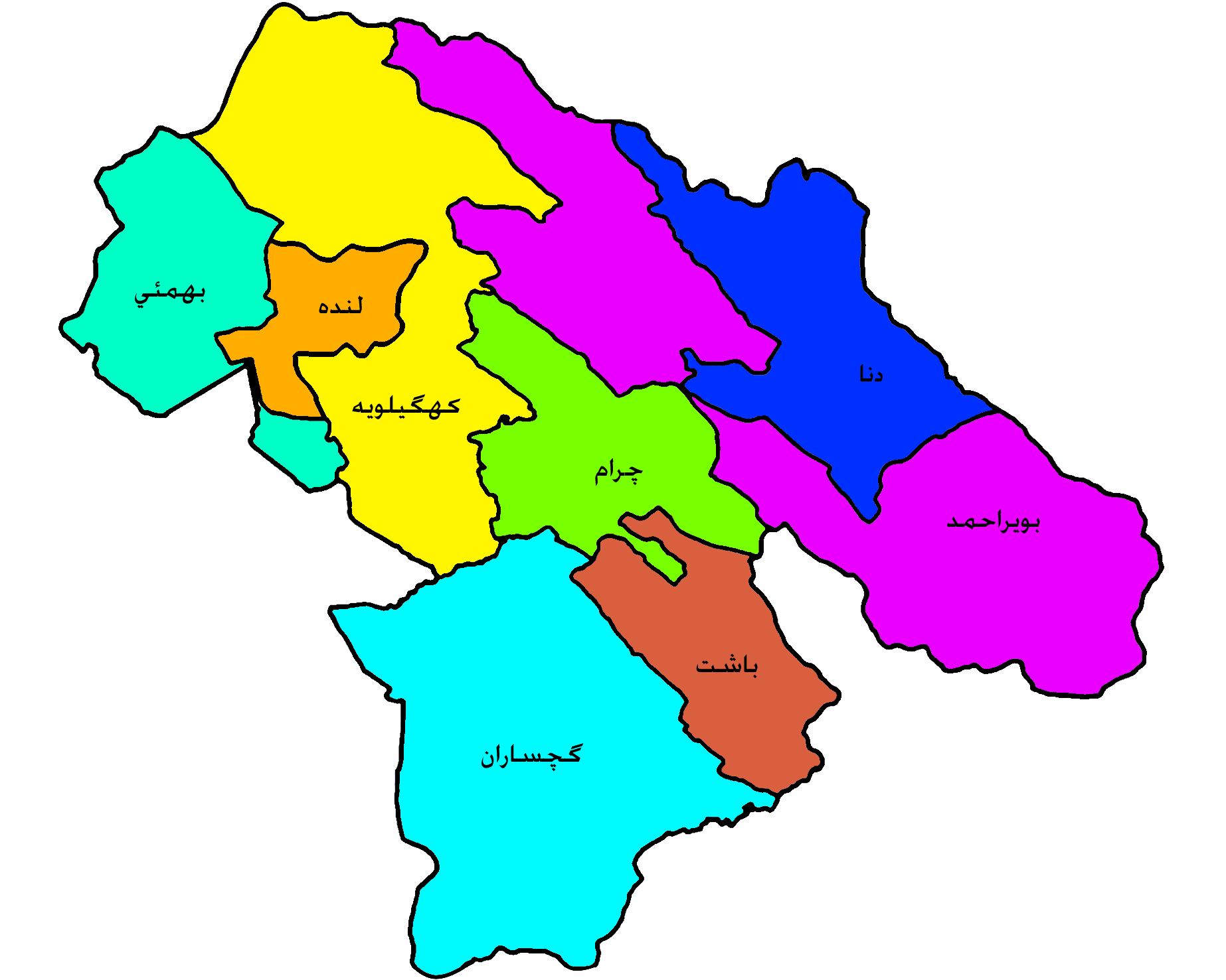 Maps of cites of Kohgiluyeh and Boyer-Ahmad Province in persian